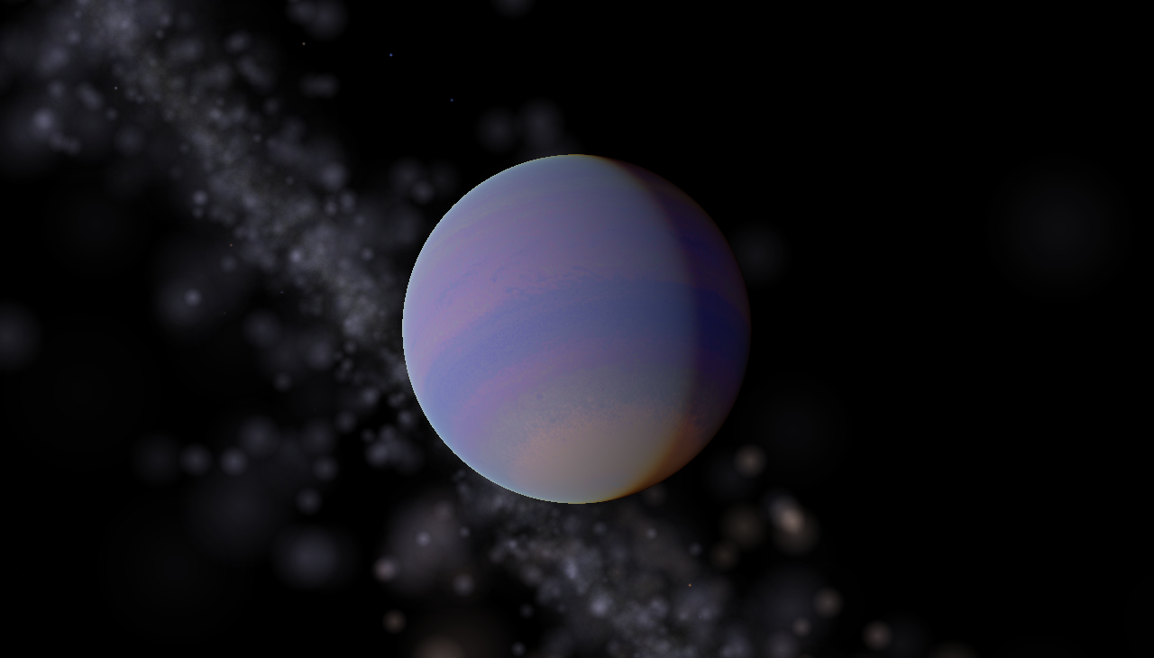 OGLE-2007-BLG-368Lb, Neptune-like planet (mass 22 times that of Earth).